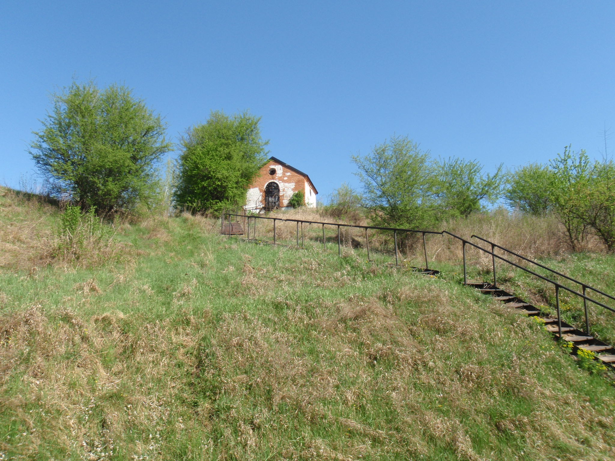 Jewish cemetery in Warka - ohel of Israel Icchak Kalisz is visible.